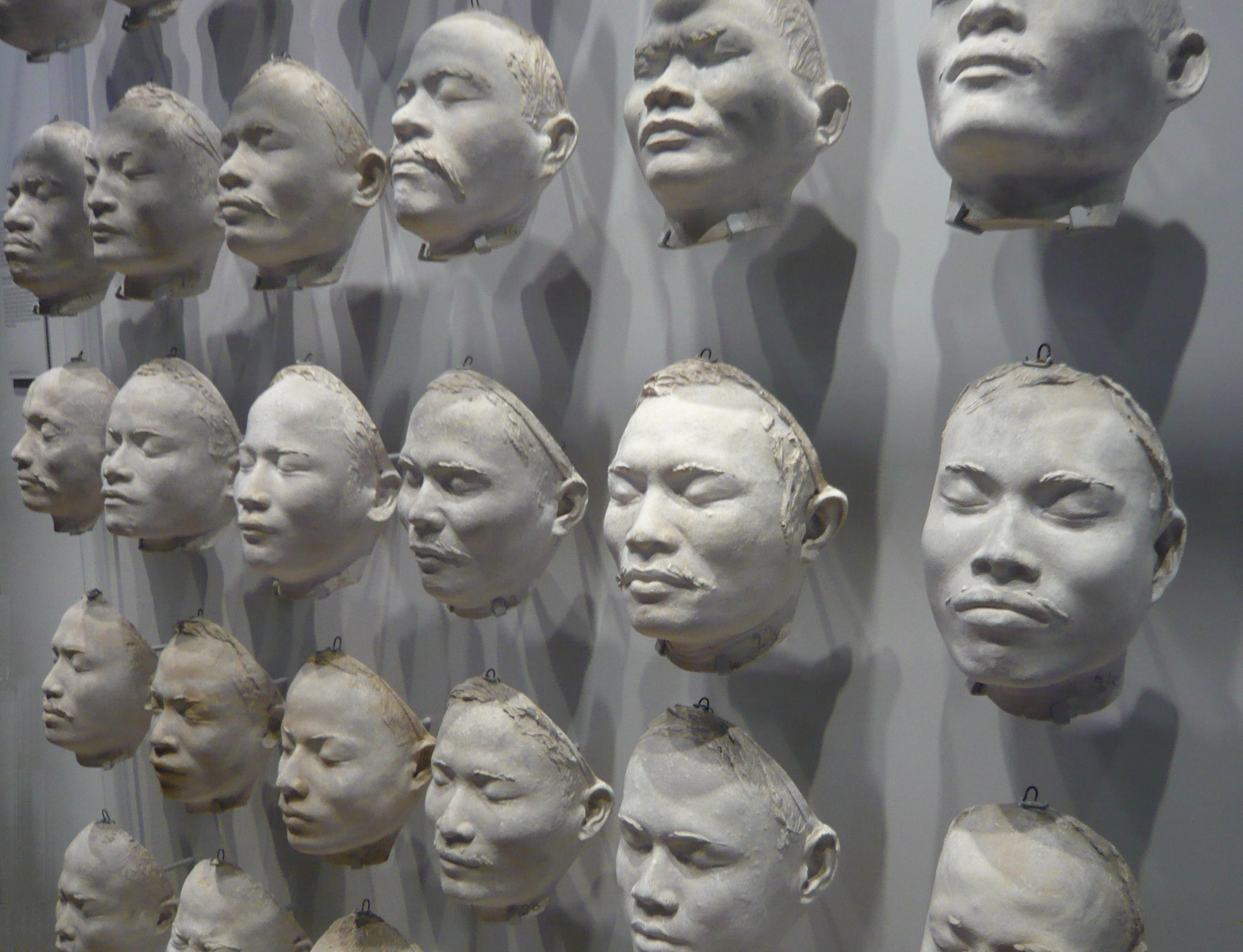 Plaster face casts of Nias islanders in the Dutch West Indies, by J.P. Kleiweg de Zwaan, results of an anthropological study, circa1910